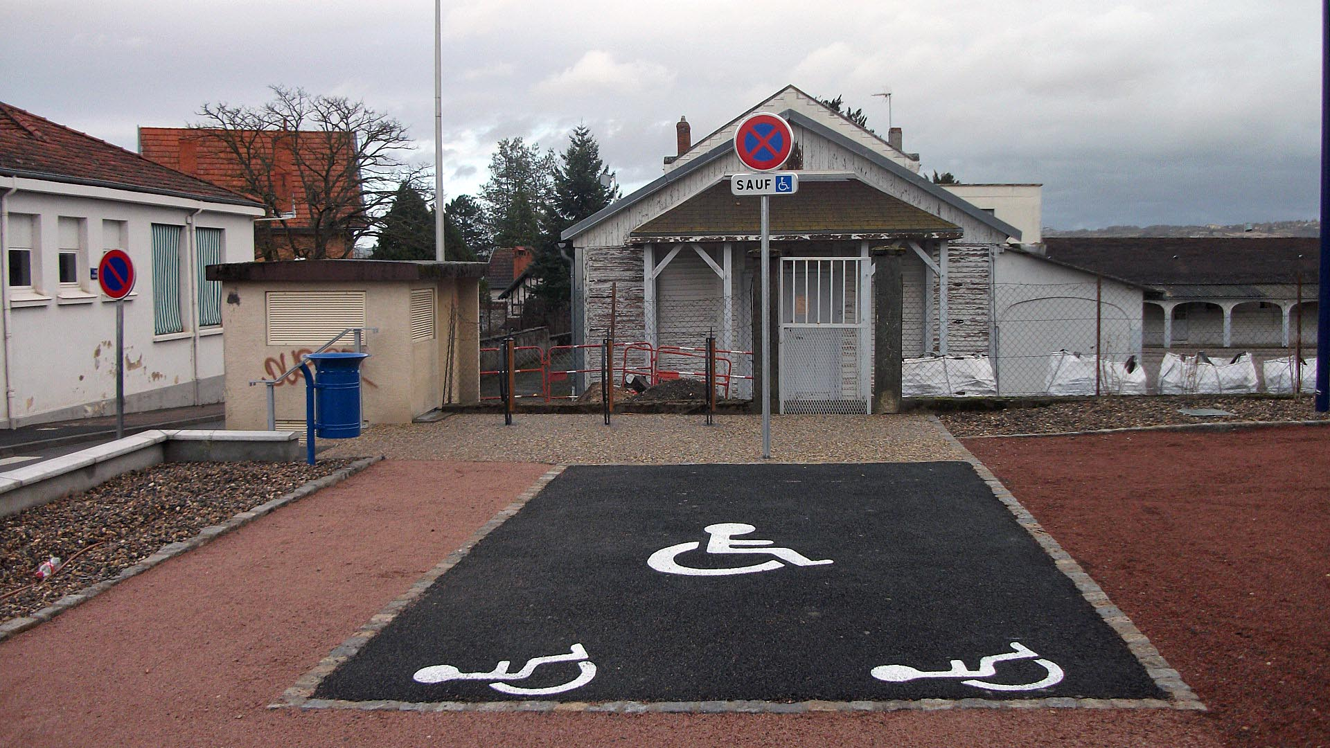 A parking space for disabled in Bellerive-sur-Allier